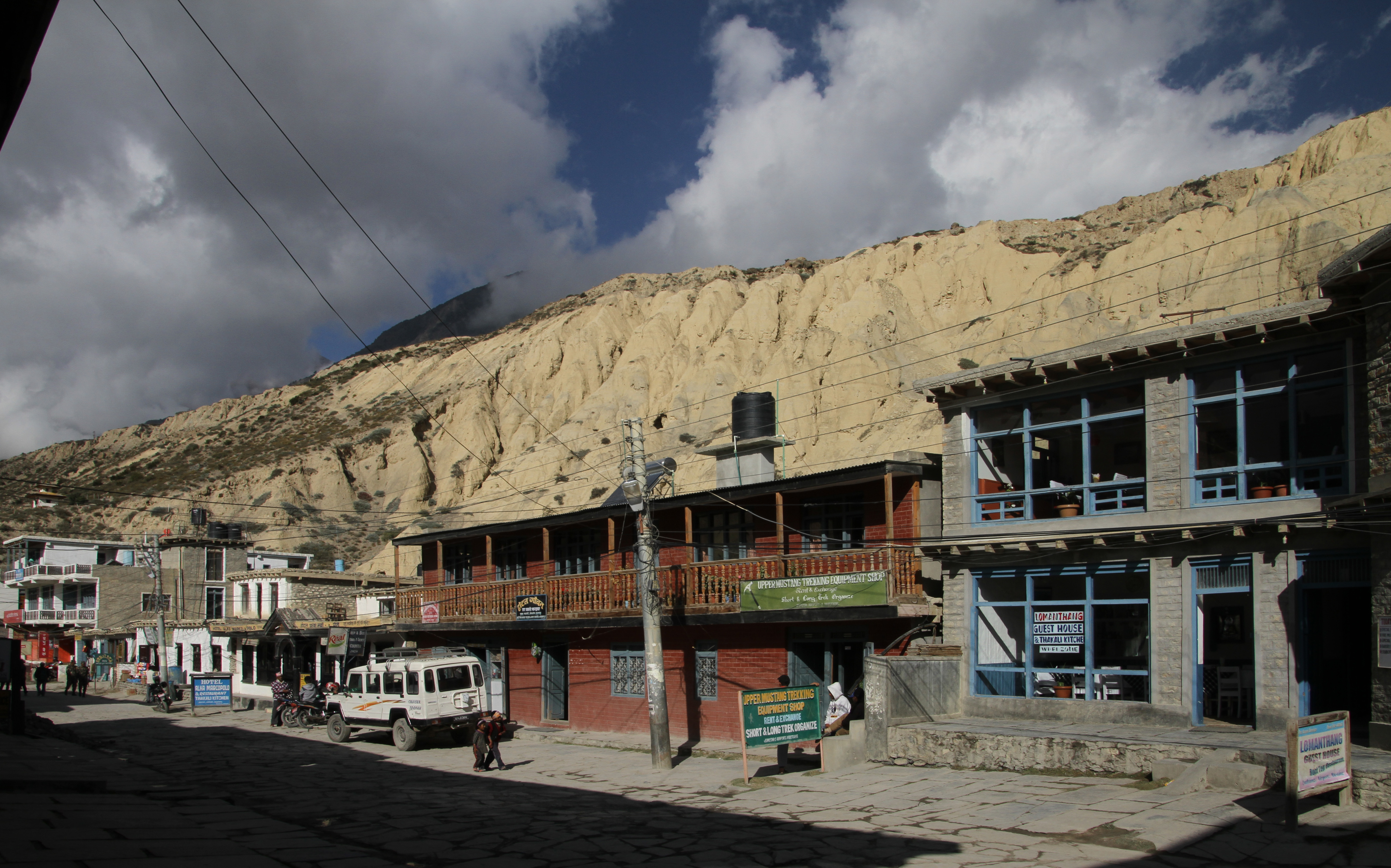 City in Gharpajhong Gaunpalika in Mustang District in Nepal